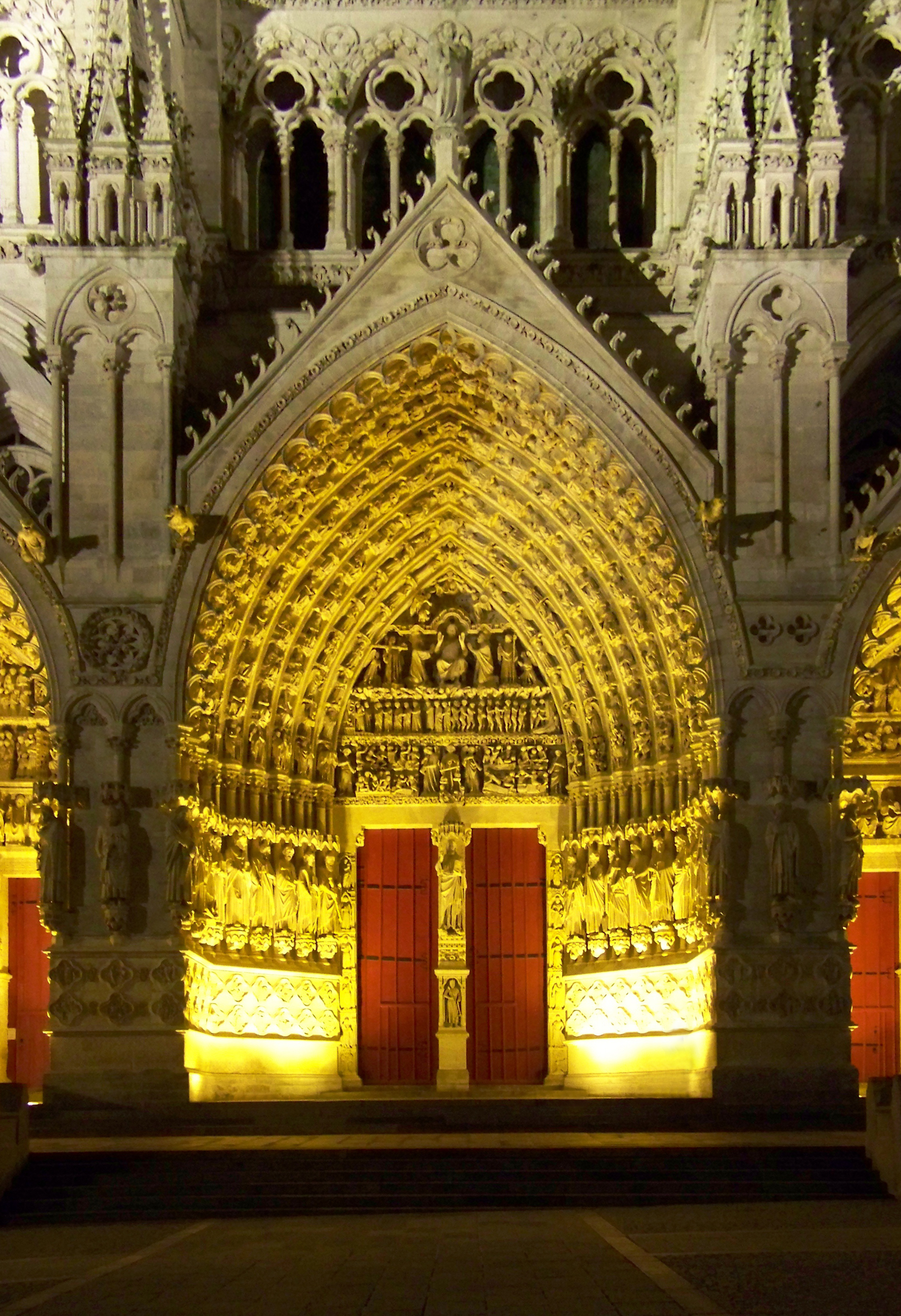 Central portal by night, cathedral Notre-Dame d'Amiens, France